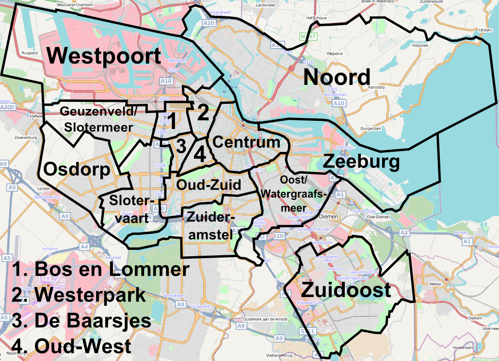 Boroughs of Amsterdam, situation after the 1998 mergers creating Zuideramstel, Oost-Watergraafsmeer and Oud-Zuid, until the great merger of 2010 (Centrum got borough status in 2002)